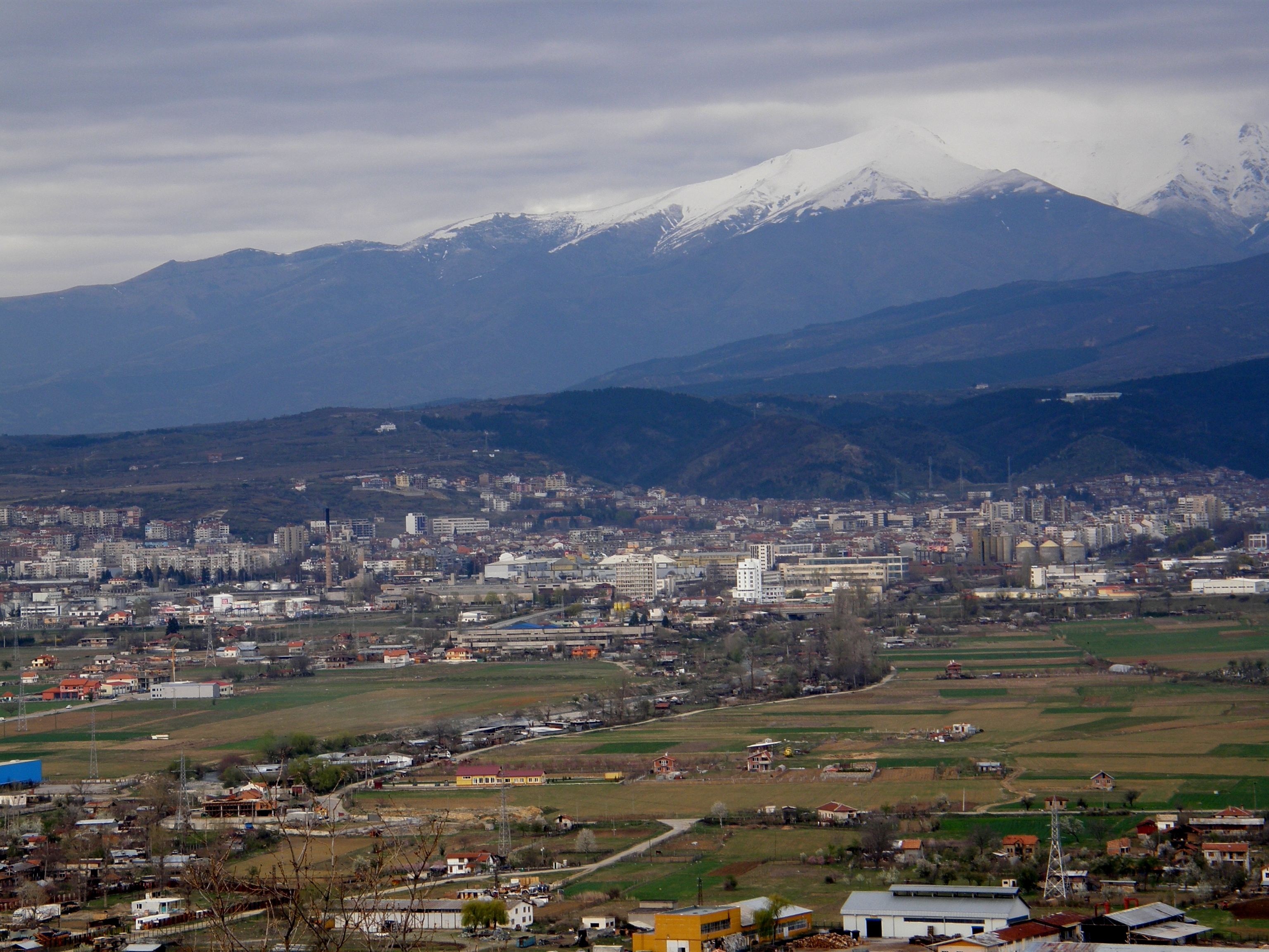 View from West of the Bulgarian city of Blagoevgrad, around 100km SW of Sofia.